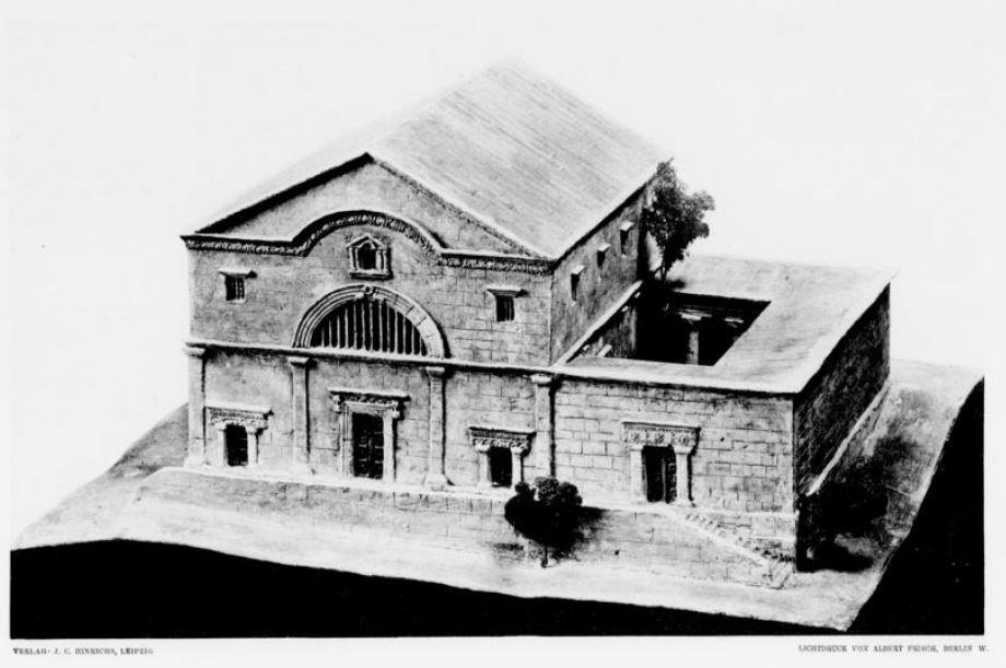 Visualization of "White synagogue" from Capernaum (from South-East)